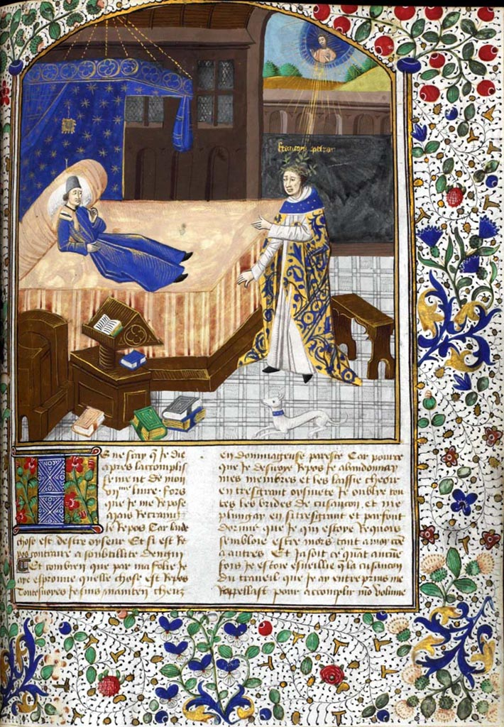 French Miniaturist (15th century). Boccaccio’s Vision of Petrarch: Illustration from Vol. 2 of Boccaccio’s De Casibus Virorum Illustrium (On the Fates of Famous Men) (1467, Glasgow, Glasgow University LIbrary)/ Boccaccio is in the bed and Petrarch in the light. (vol 2: folio 65r)